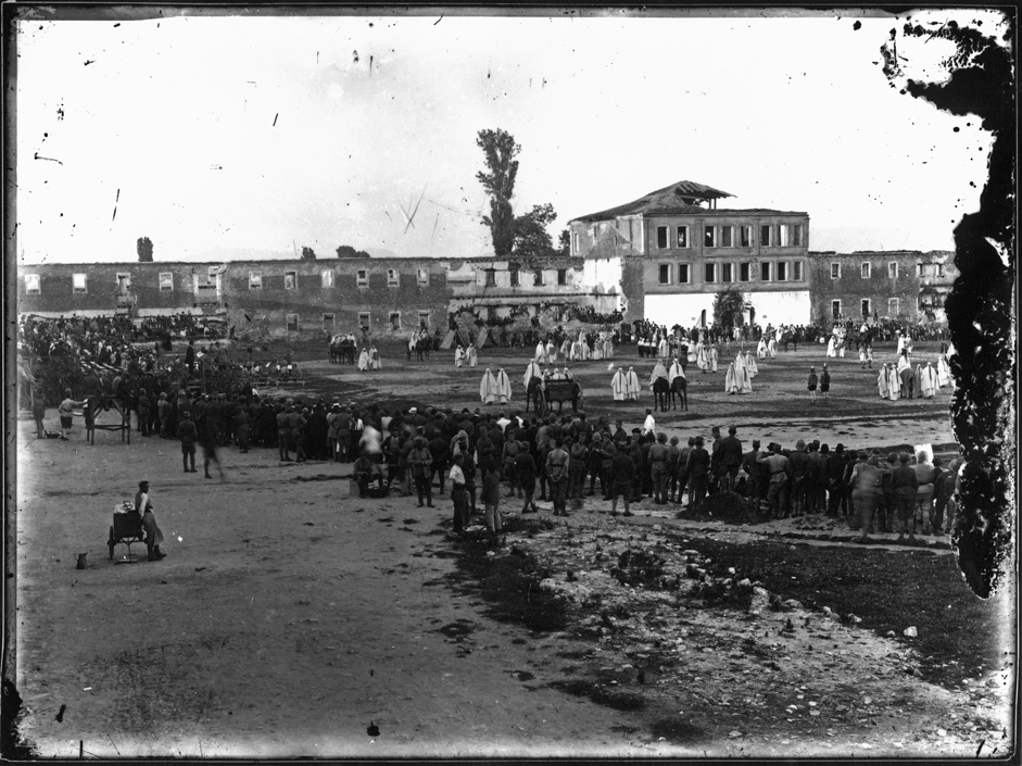 Officer Chopi and teacher Bartipan play chess with live figures. Glass plate (178x238 mm) Bitola 1924 This media file is produced by Wikipedian in Residence in Category:Wikipedian in Residence at DARM in 2016.